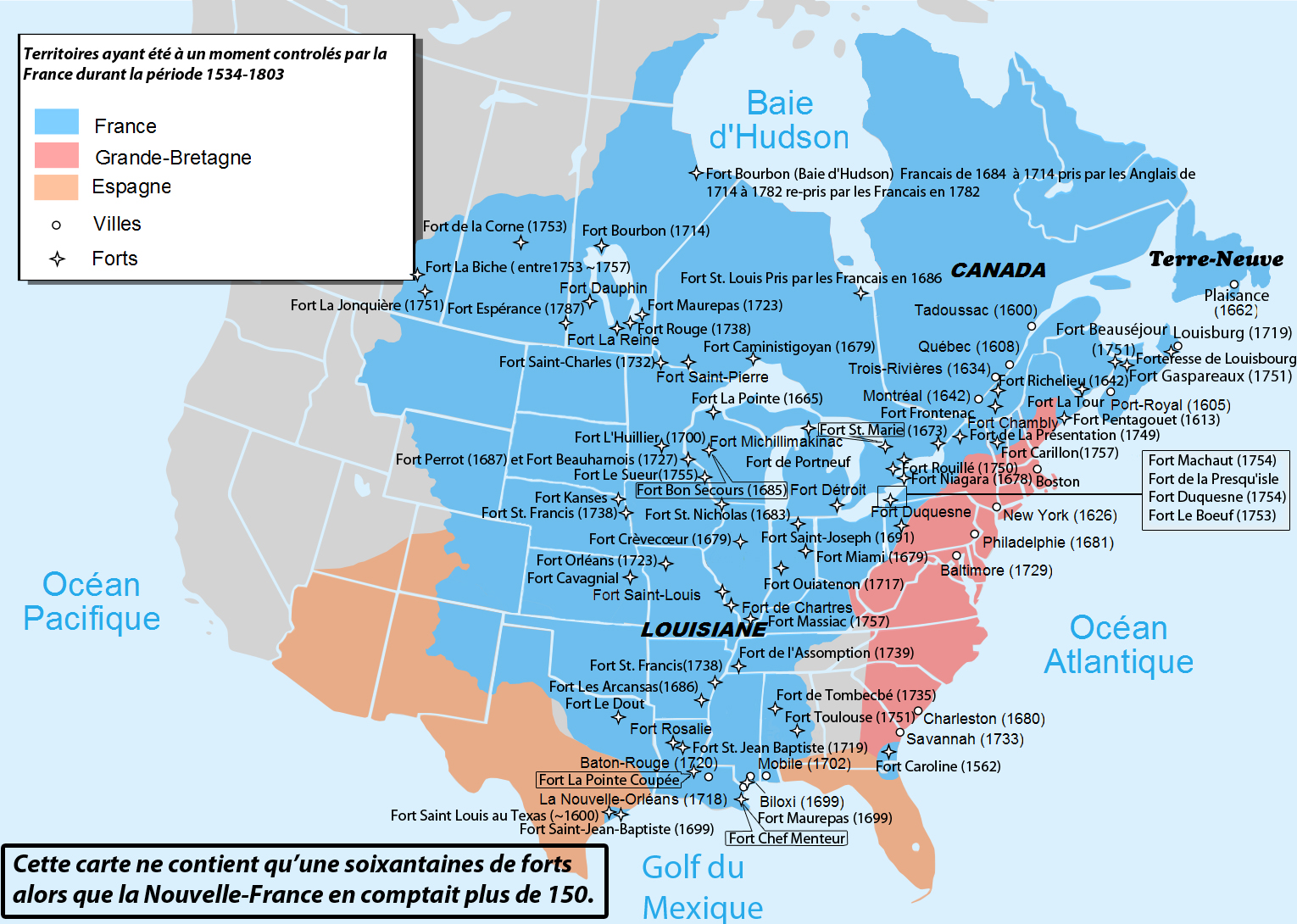 Maximum extent of all territories in North America that were controlled by France at any one point between 1534 and 1803. Français cadien: Carte des territoires combinés ayant été dans la nouvelle France de 1504 à 1803.